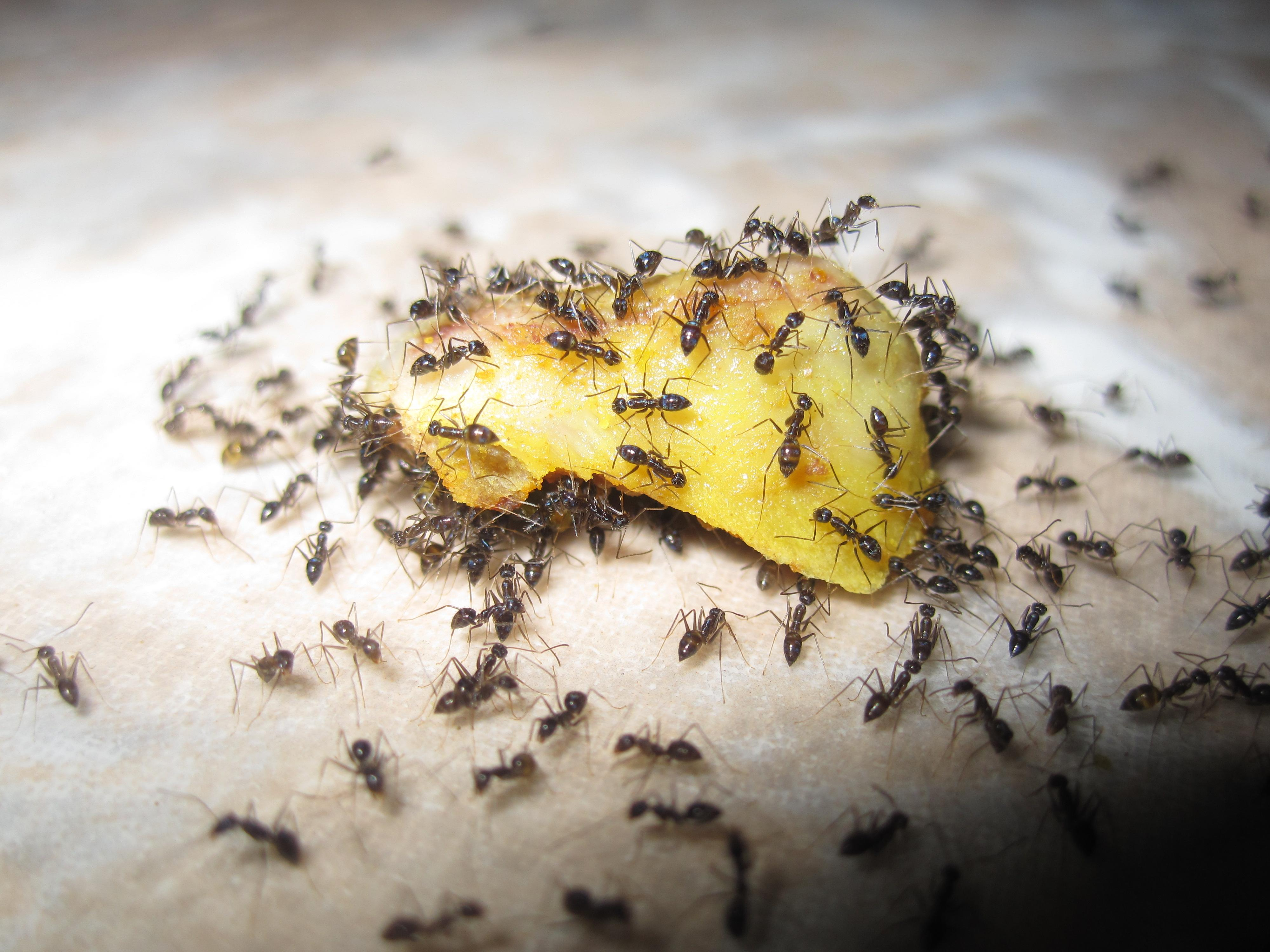 Ants eating slice of an apple!